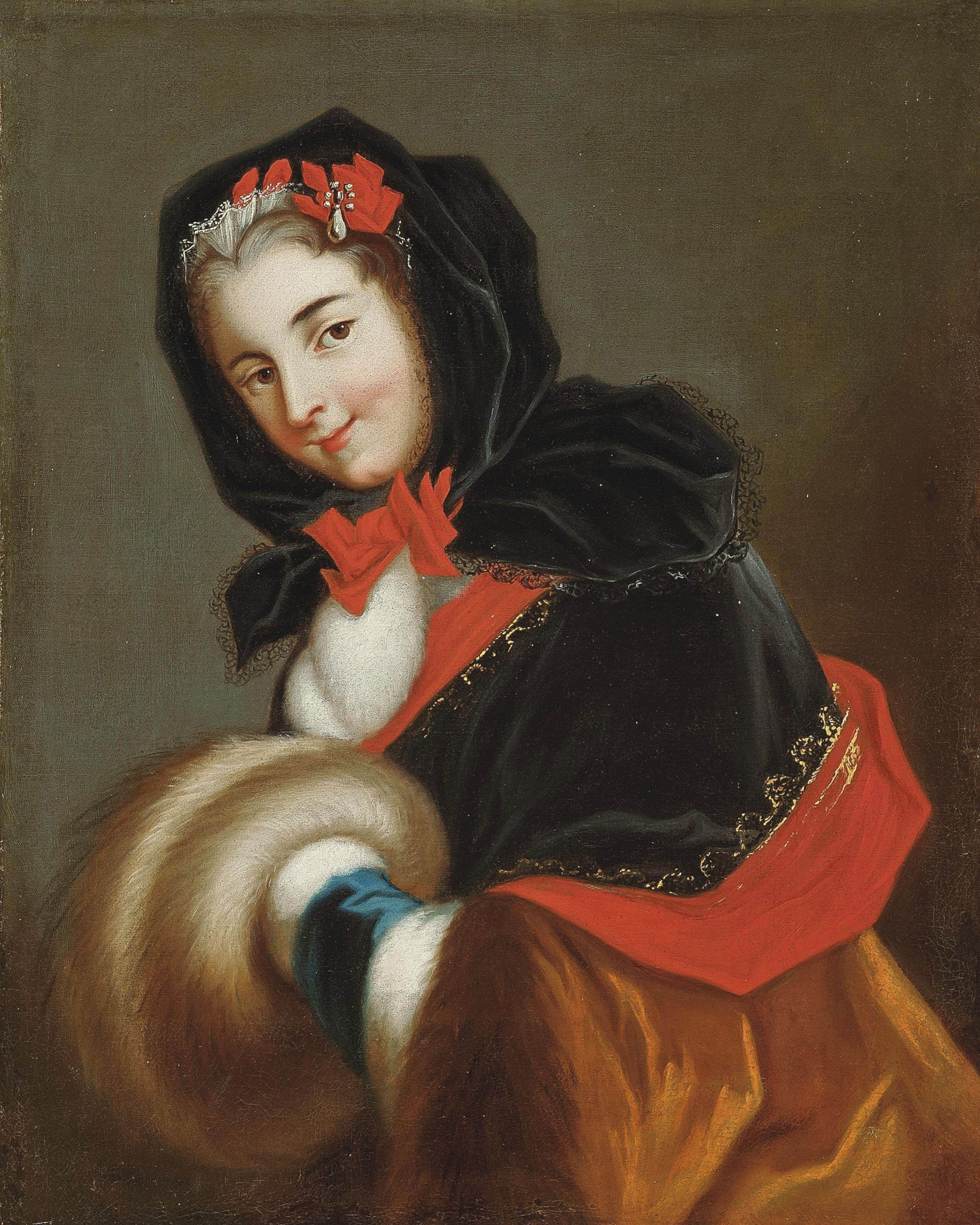 Portrait of Louise Henriette de Bourbon, Duchesse de Chartres and Duchesse d'Orléans (1726-1759) in a fur trimmed cloak and muff. French School, 18th century. Oil on canvas, 81.3 x 65.4 cm